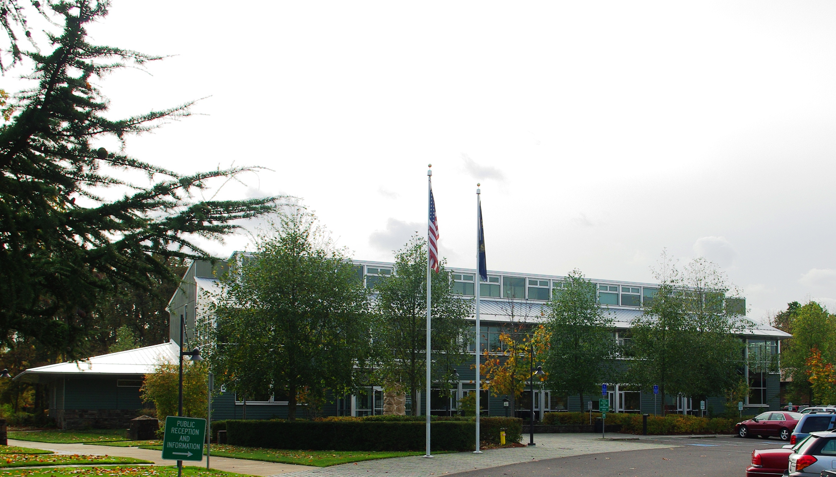 Modern Oregon State Forester's Office in Salem, Oregon, USA.